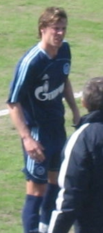 Radek Šírl. 2006 Russian Premier League (FC Zenit St.Petersburg v.s. FC Spartak Moscow)